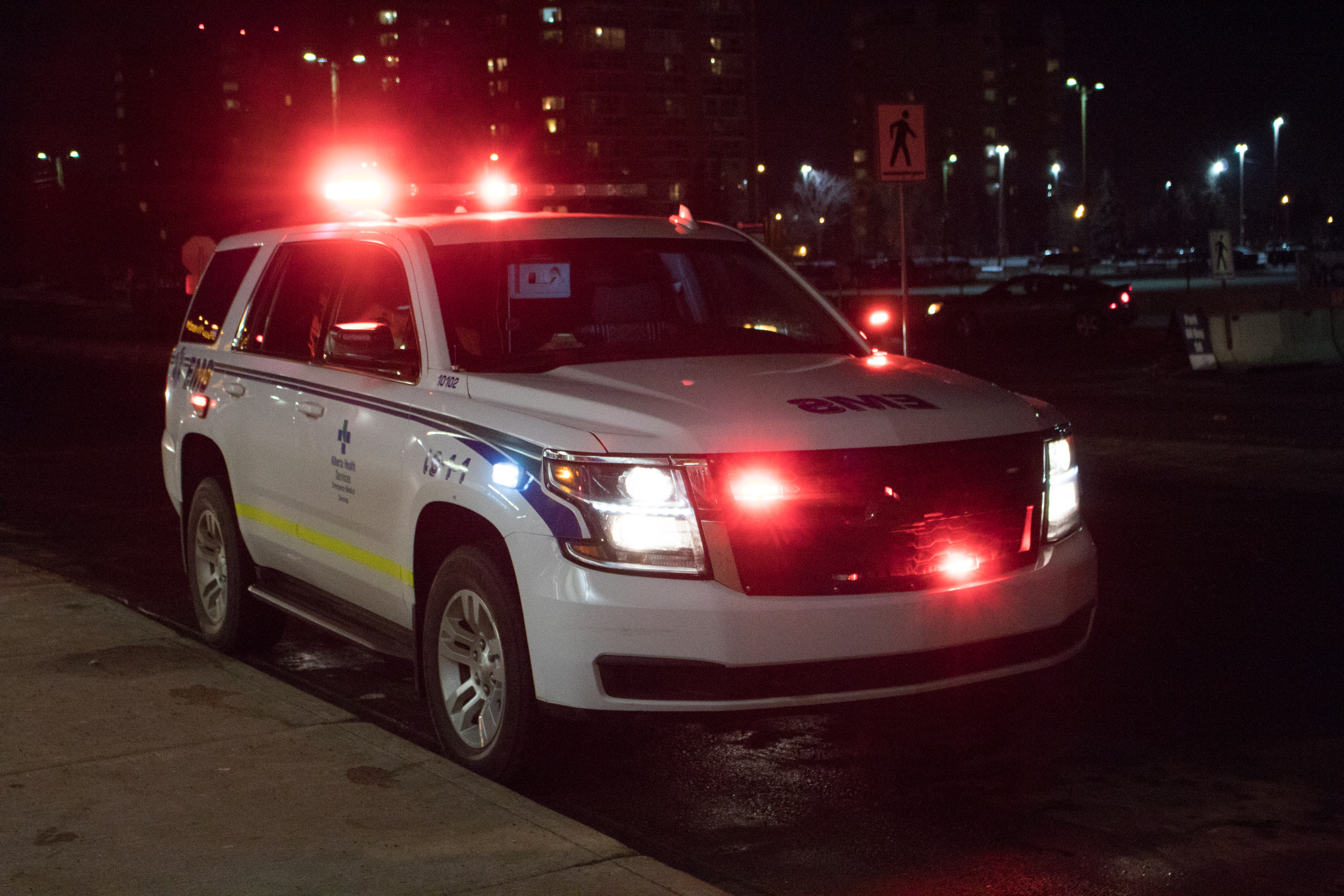 Alberta Health Services Chevrolet Tahoe with lights on at Century Park, Edmonton.